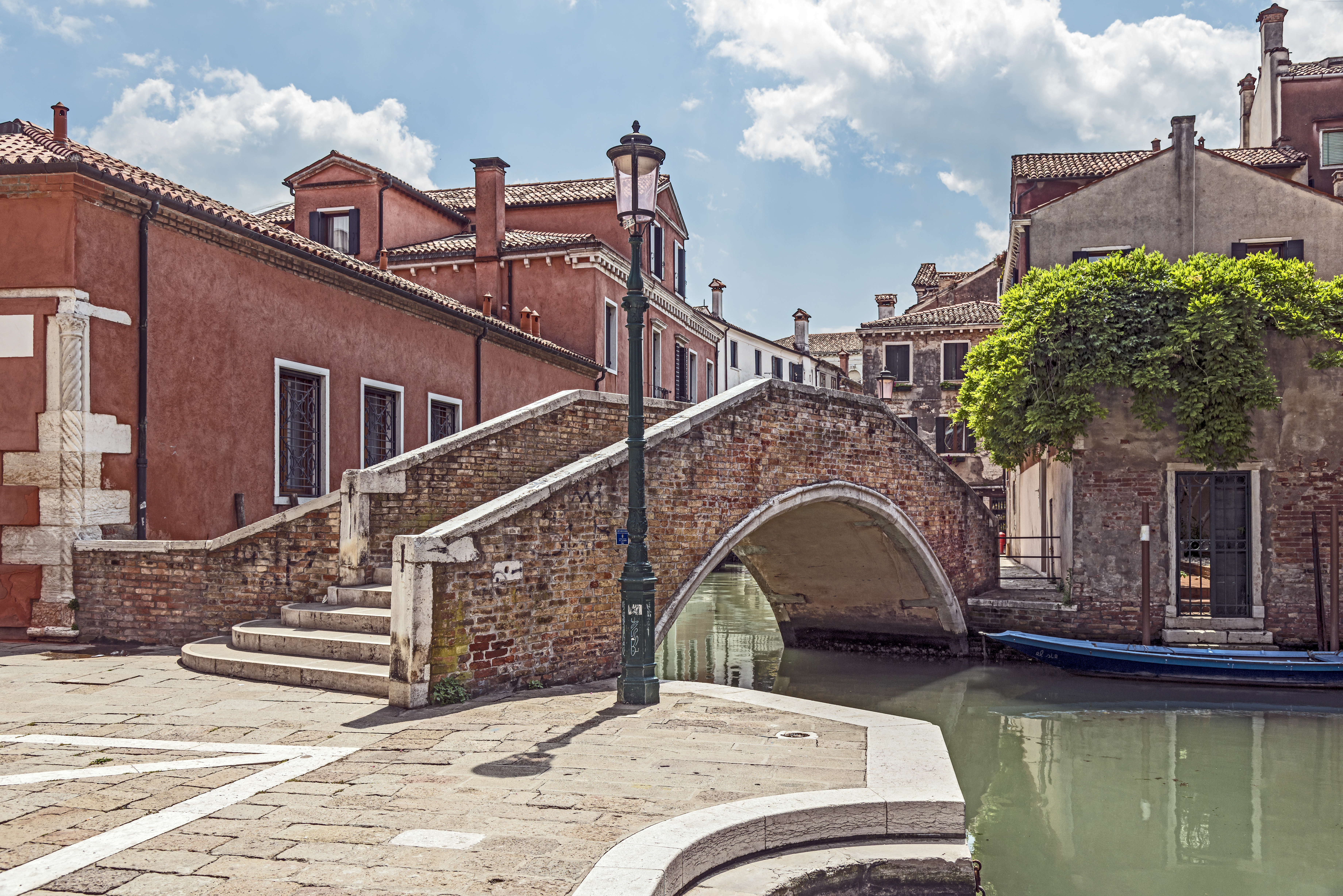 Ponte San Boldo on Rio di San Giacomo dall'Orio - Venice